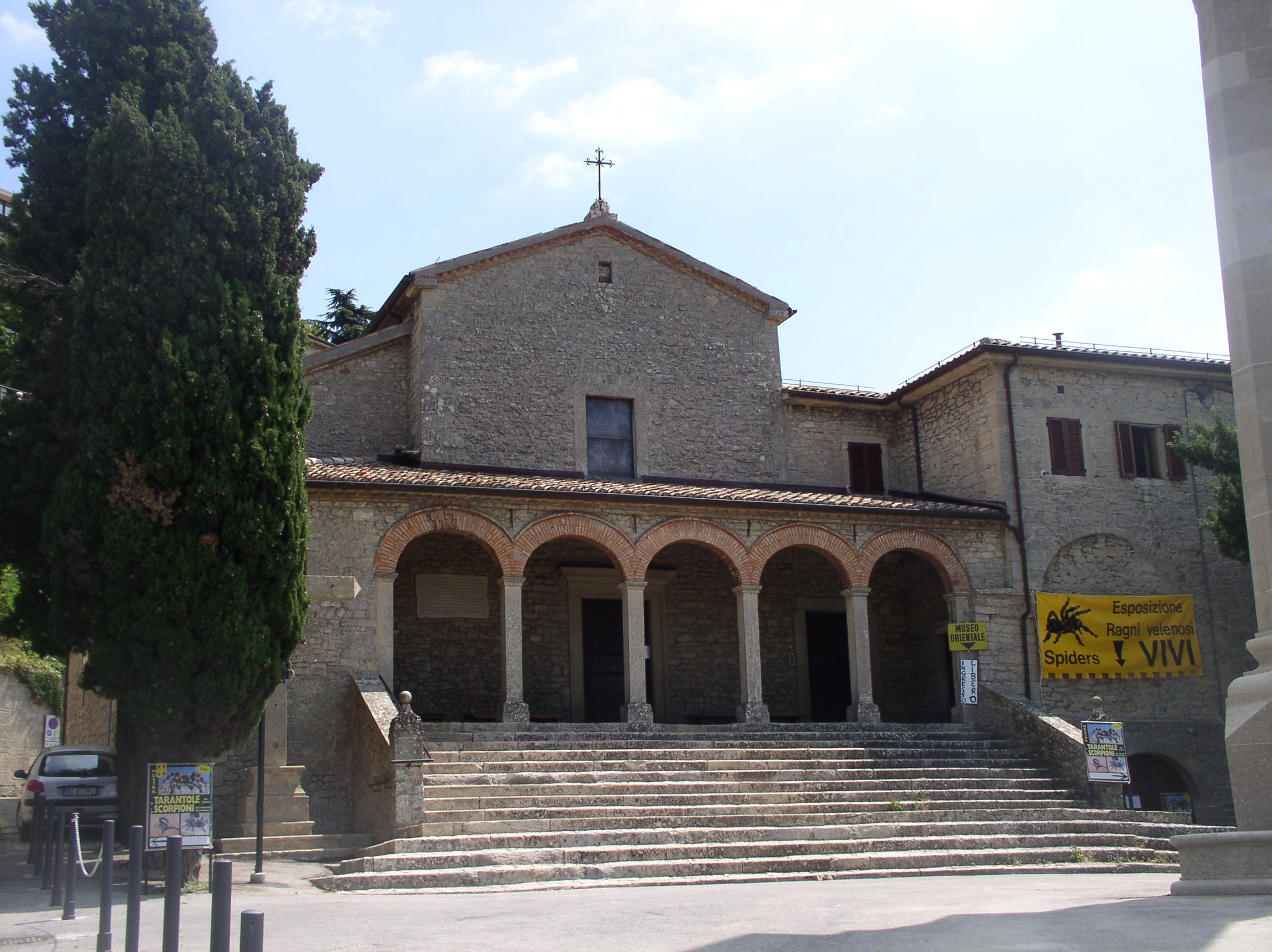 San Quirino church in San-Marino